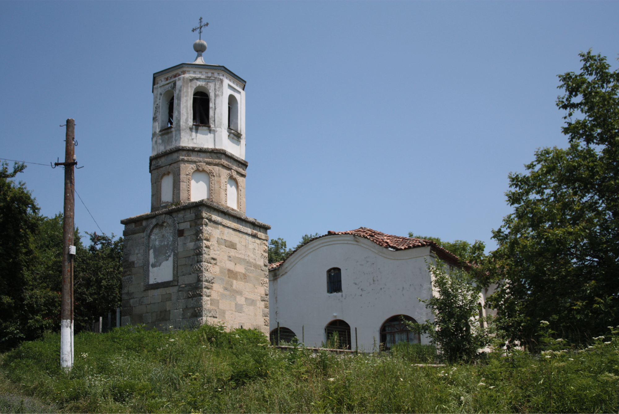 Qkovtsi Saint Trinity Church